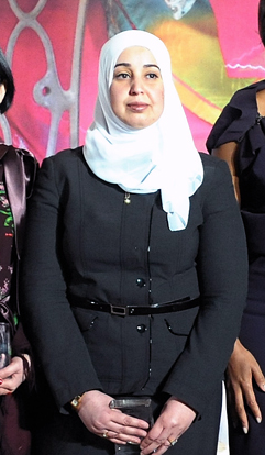 2011 International Women of Courage awards